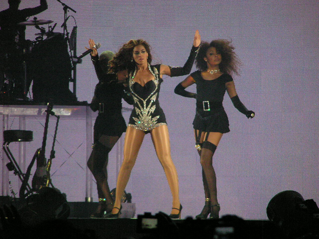 Beyoncé Newcastle 2009